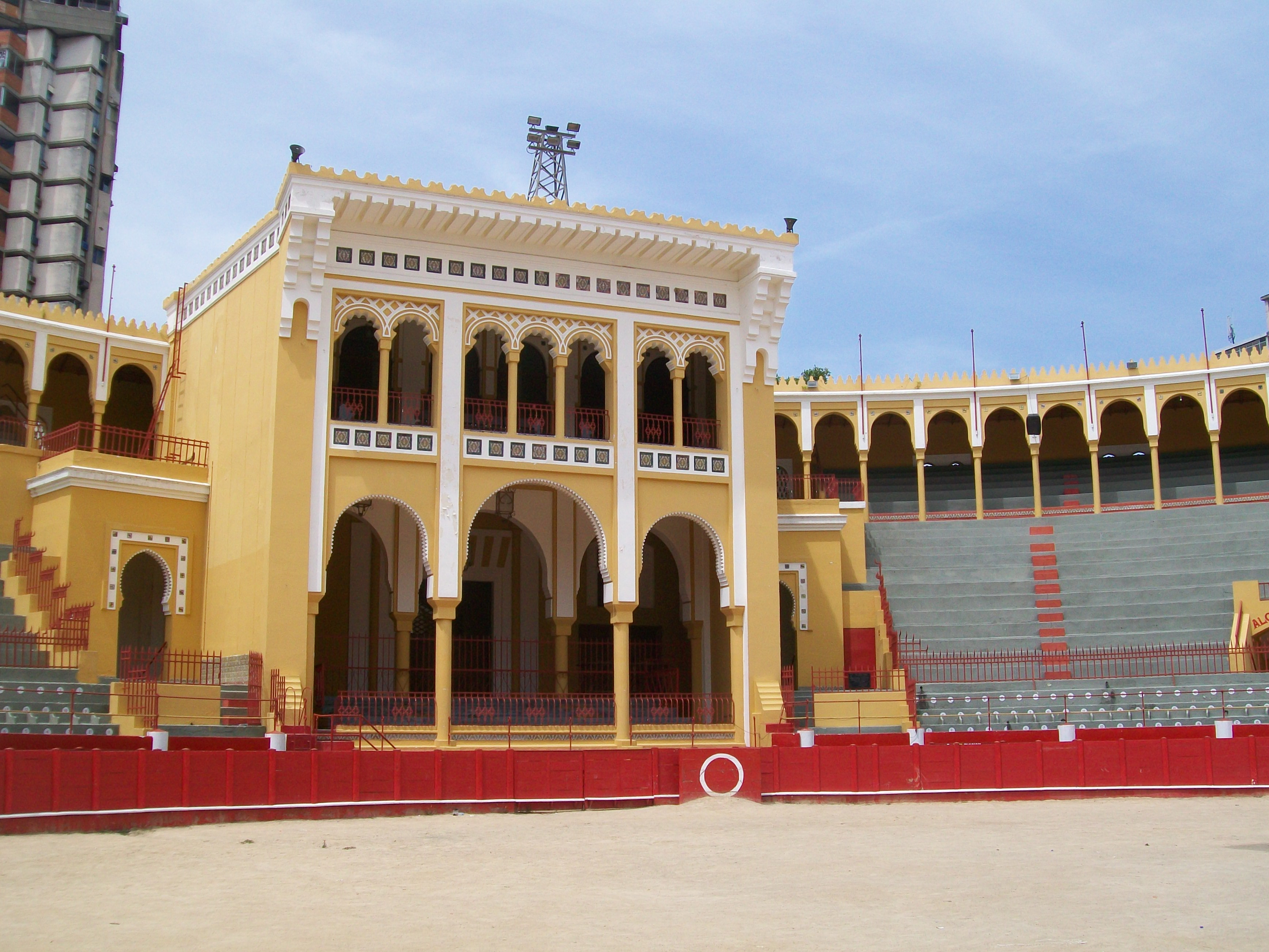 Inside of the bullring in Maracay, Venezuela